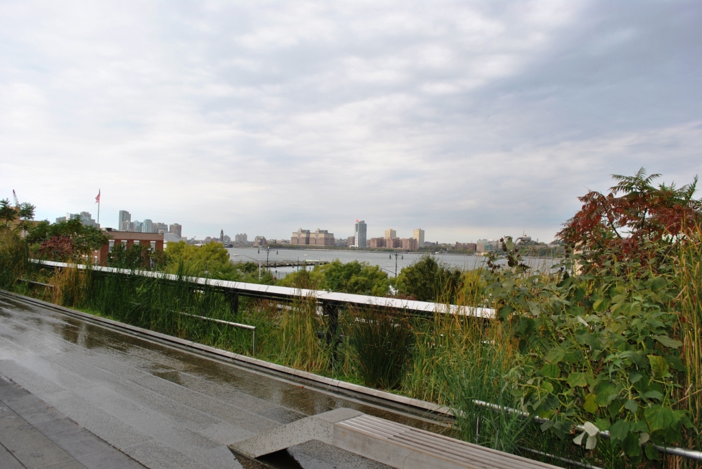 High Line (New York City)